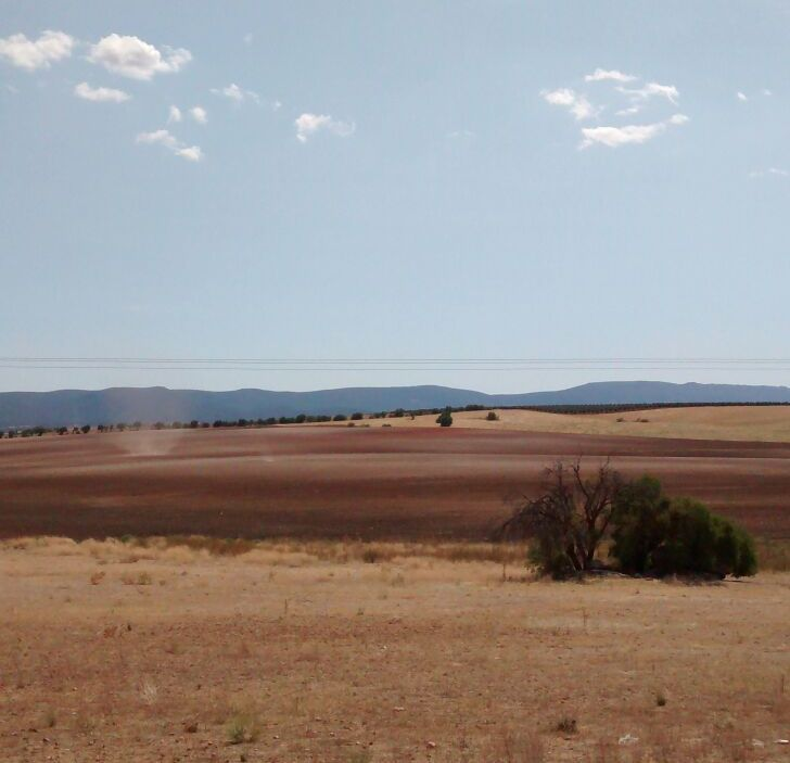 A small 'dust devil' captured in La Mancha (Spain), between the villages of Sonseca and Orgaz. August 2015